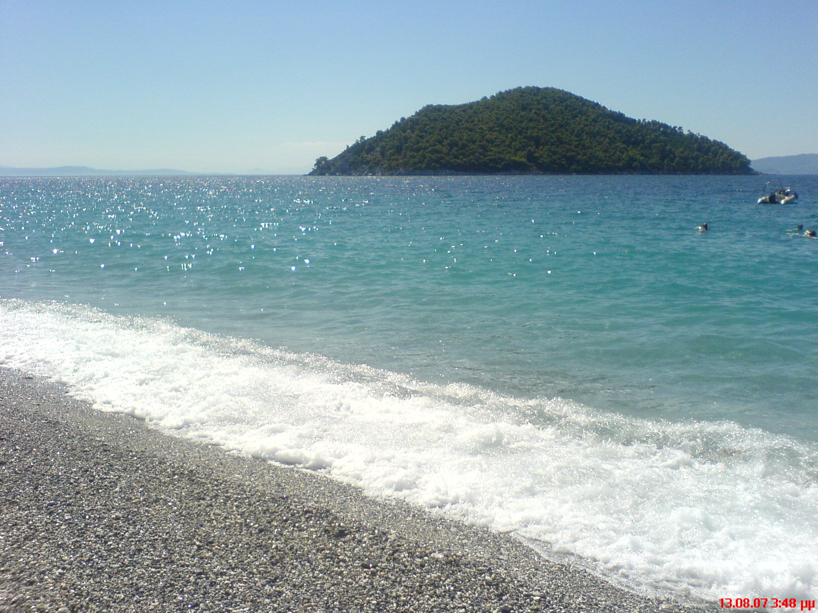 "Παραλία Μηλιά - Σκόπελος." Milia Beach with Dasia Island, Skopelos, Northern Sporades, Greece